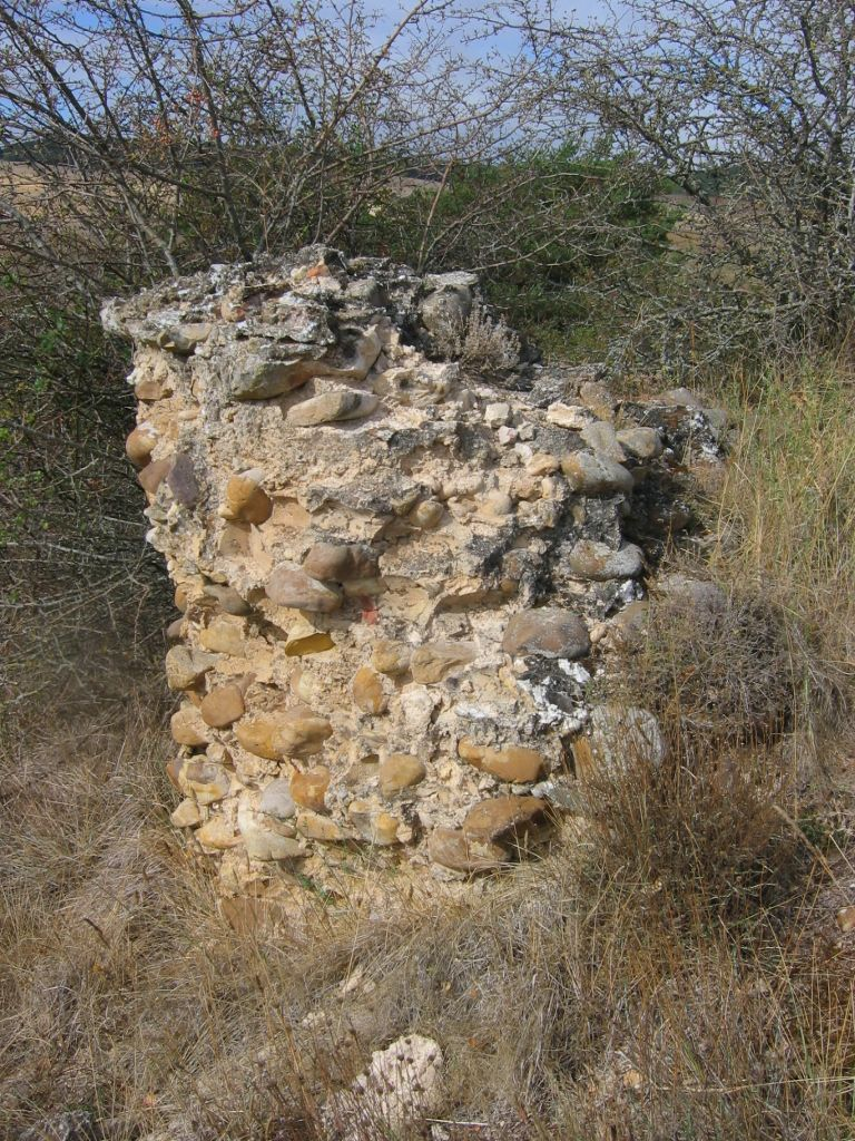 Restos de un Cubo del Castillo de Agüero en Buenavista de Valdavia.